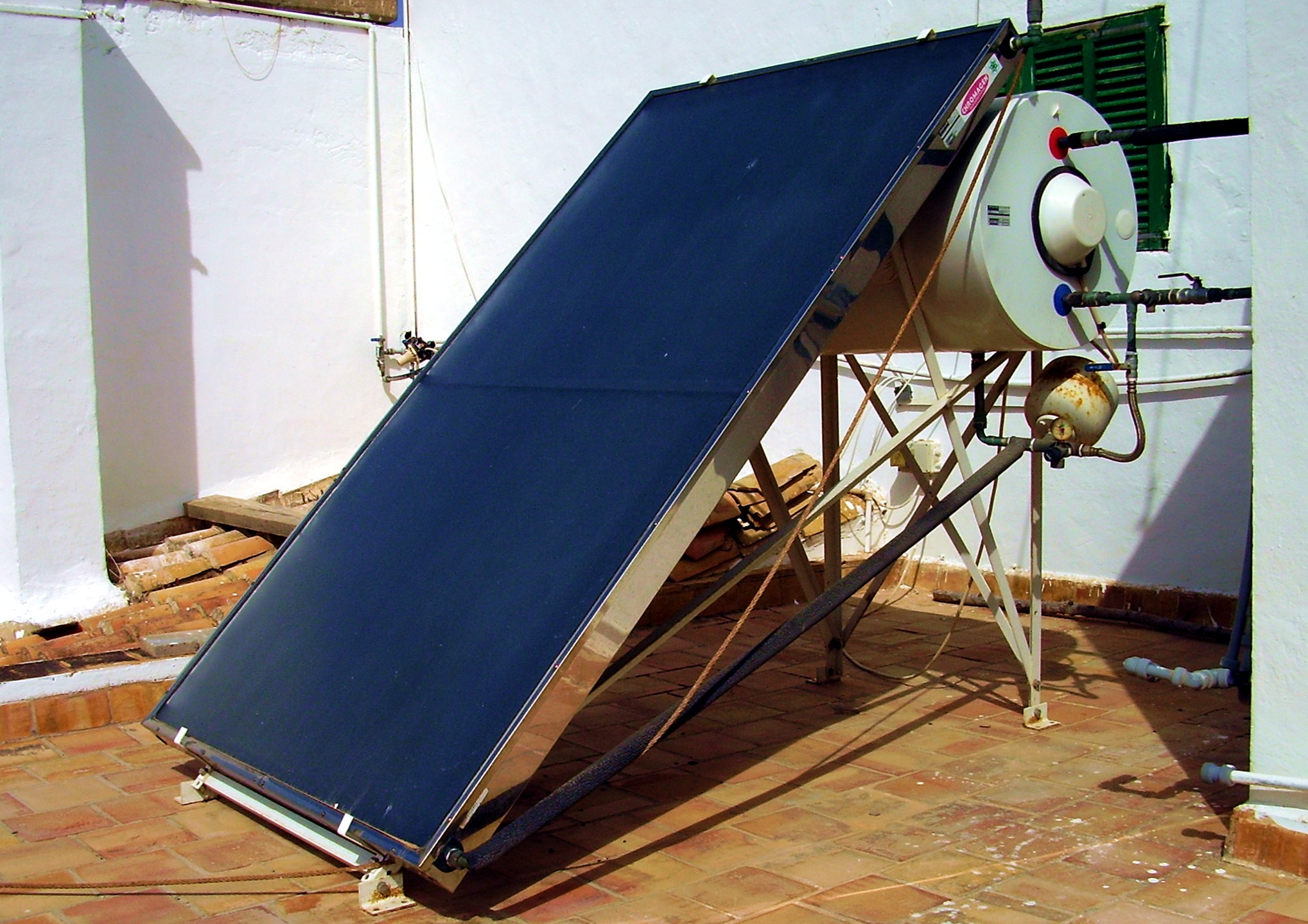 Solar compact collector used in sanitary hot water production for one house, in Cabrera; Port de Cabrera (Illes Balears).